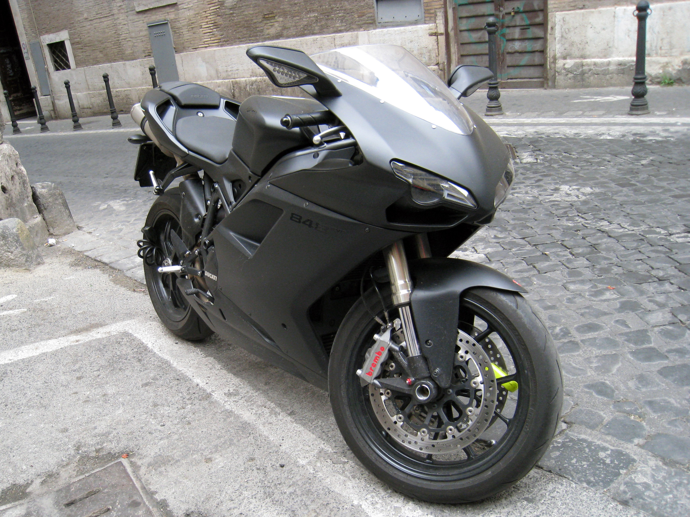 Photo of a Ducati 848 evo black mat in a street of Rome.